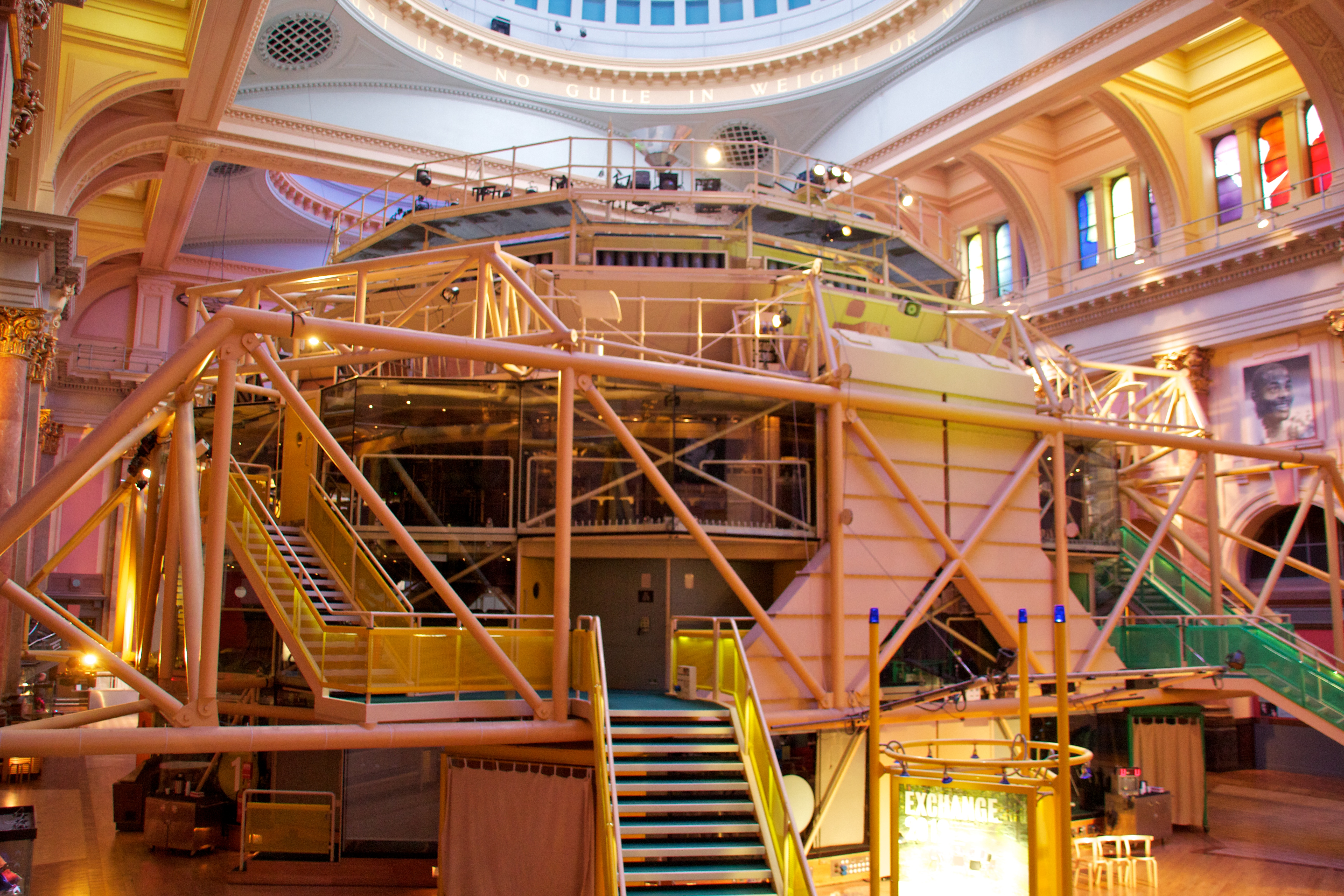 The theatre within the Royal Exchange, Manchester, England.